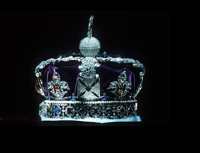 The British Imperial State Crown viewed from the side with the front facing left (the Black Prince's Ruby, and the Cullinan II are just visible in profile). It was made in 1937 with alterations in 1953.